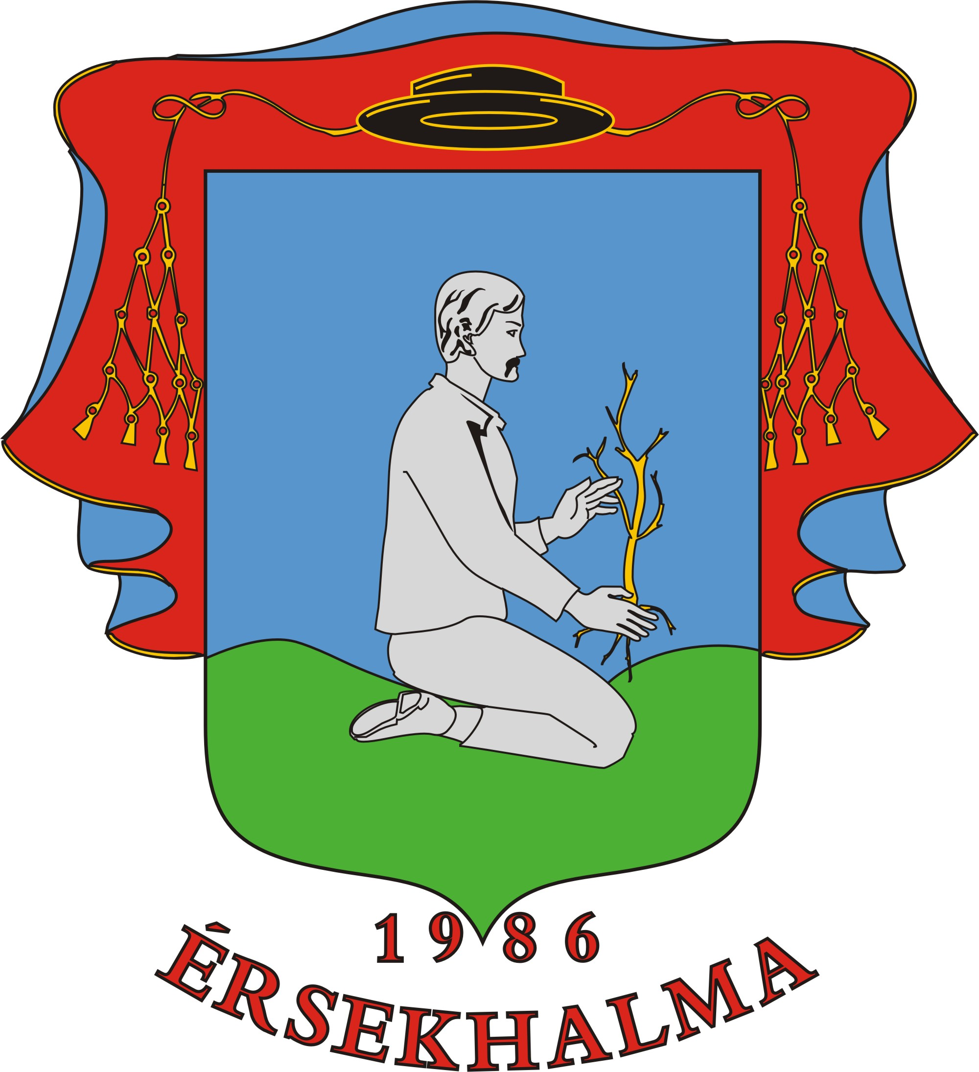 Coat of arms of Érsekhalma, Hungary